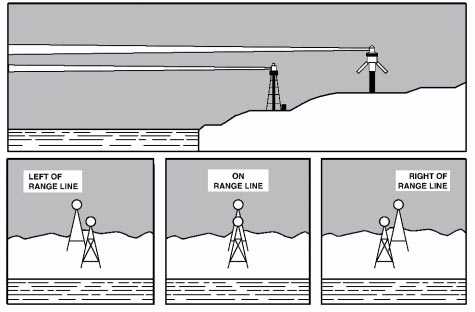 figure 502 of APN2002